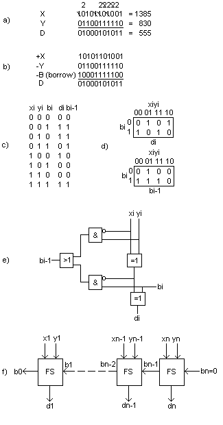 Subtractor